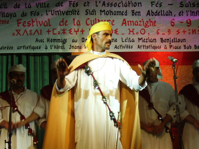 A Moroccan Amazigh wearing a burnous (front)